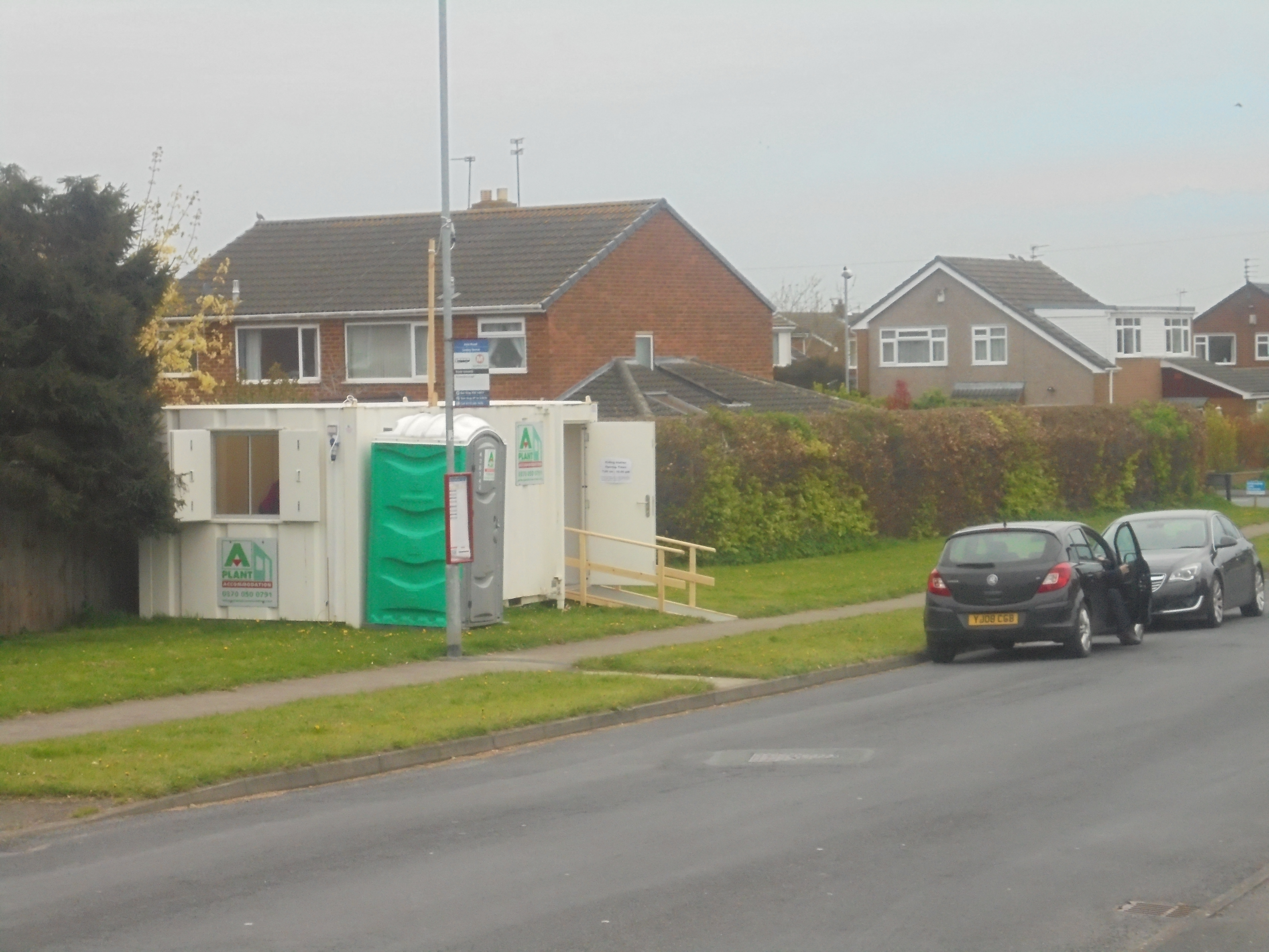 Polling station, Aire Road, Wetherby, West Yorkshire. The elections are for Leeds City Council councillors. Taken on the evening of Thursday the 3rd of May 2018.